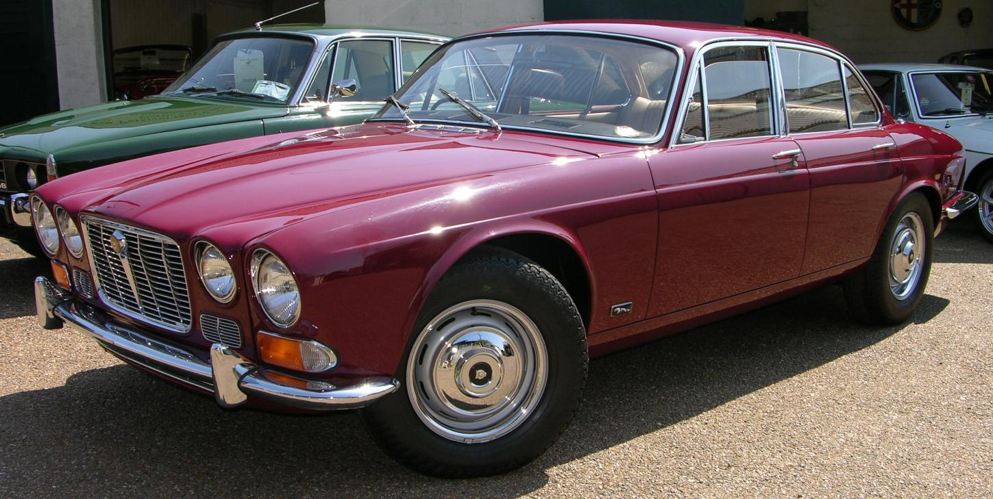 1970 Jaguar XJ6 4.2 Series 1